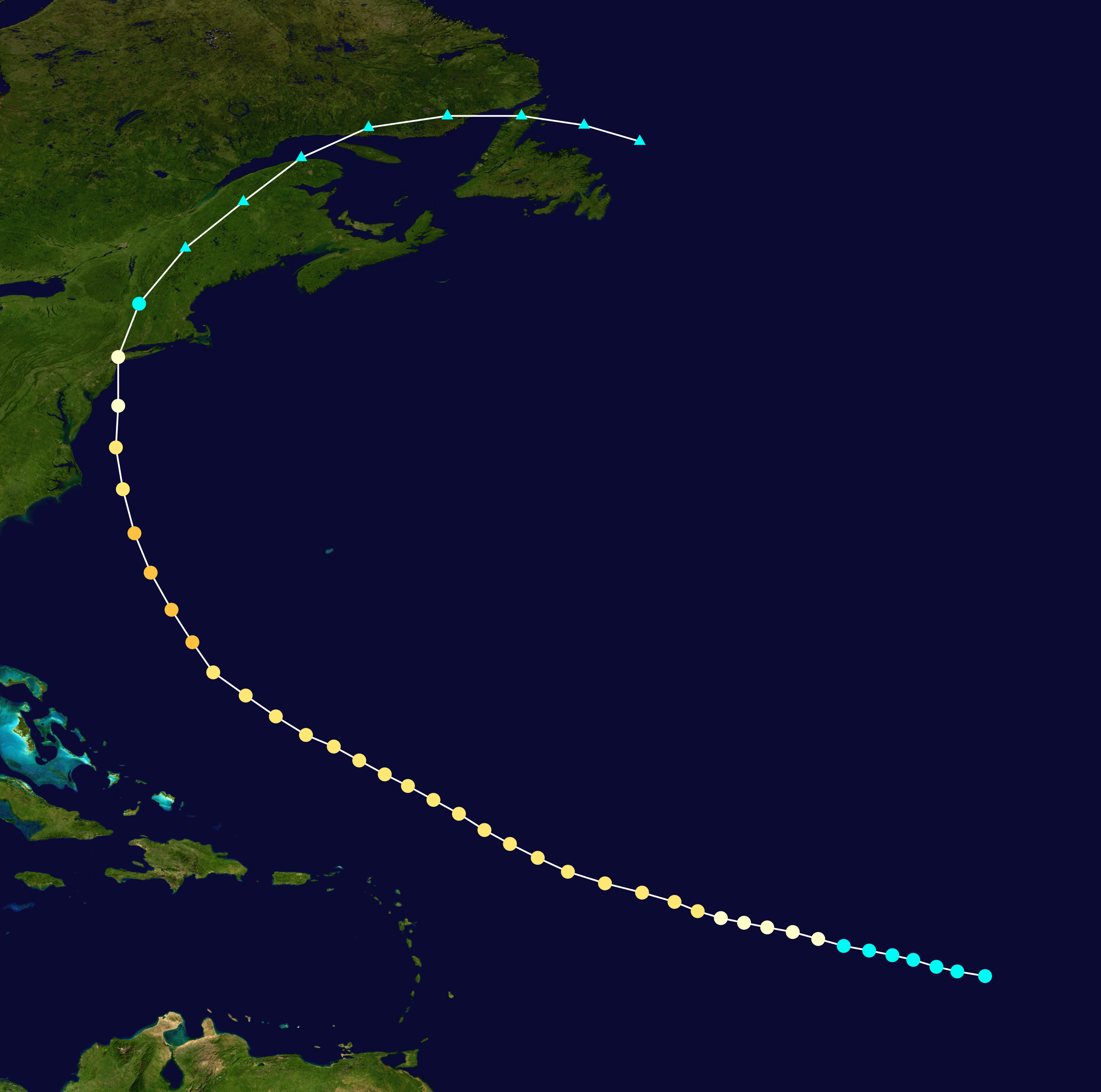 1893 Atlantic hurricane 4 track. Uses the color scheme from the Saffir-Simpson Hurricane Scale.